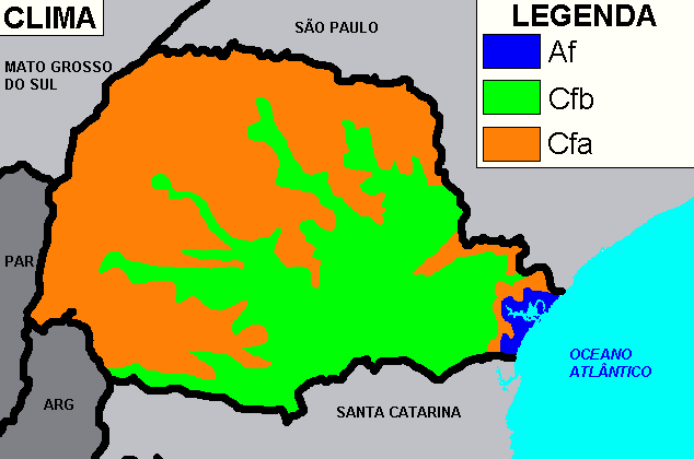 Climate map of Brazilian State of Paraná